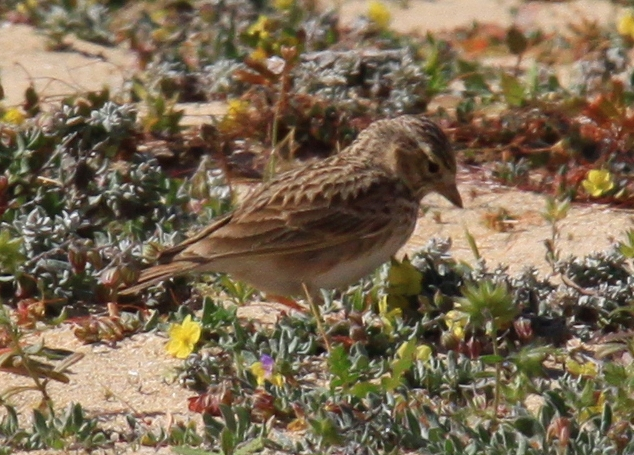 Lesser Short-toed Lark on Fuerteventura, Canary Islands, Spain.